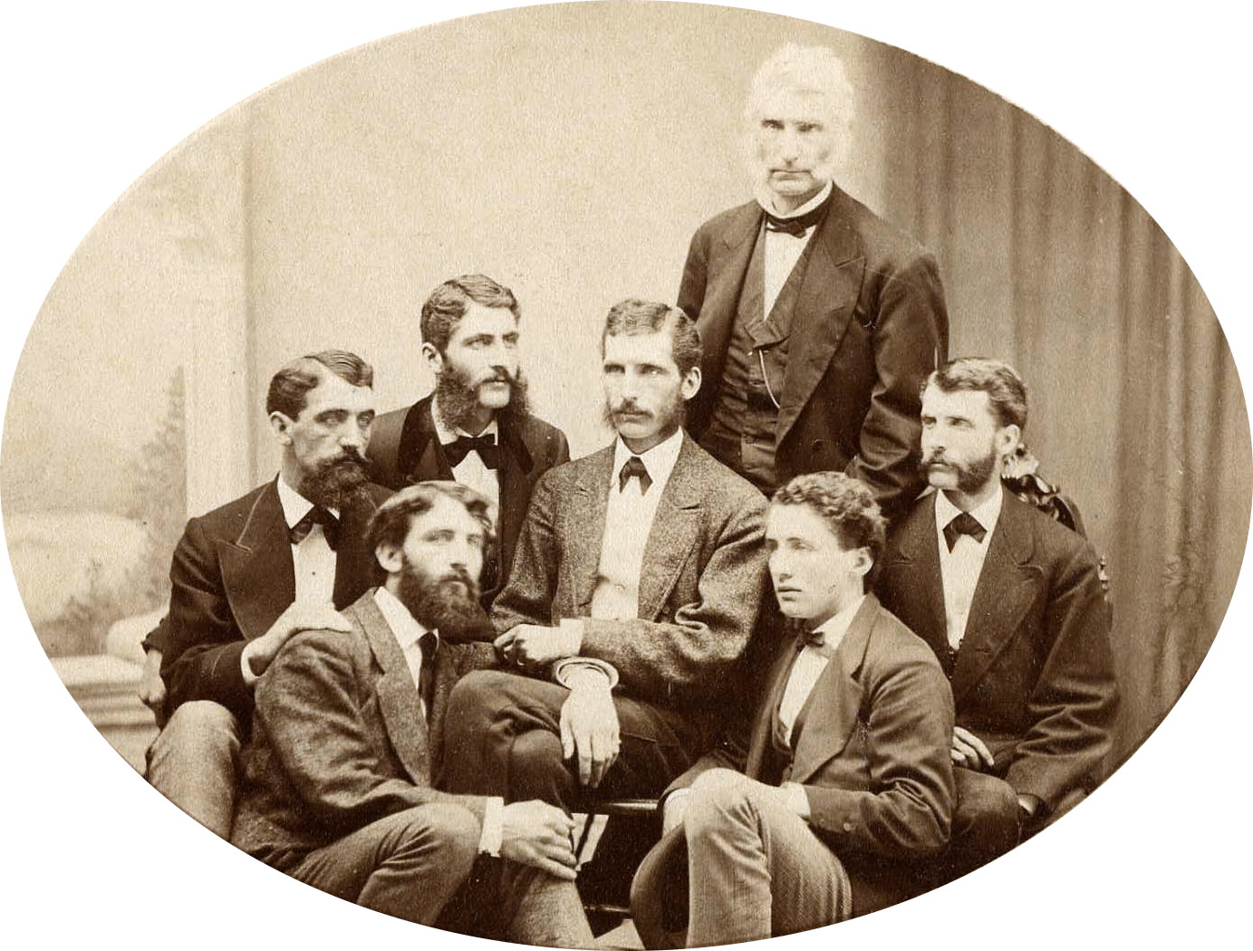 Albumen photograph of Harvey Denison Kitchel (1812-1895), president of Middlebury College, VT from 1866-1875, posing with his six sons. They are Harvey Sheldon, Courtney, Cornelius, Stanley, Luther and Farrand. The photograph was taken during Mr. Kitchel's term as president of the college, most likely about 1870.